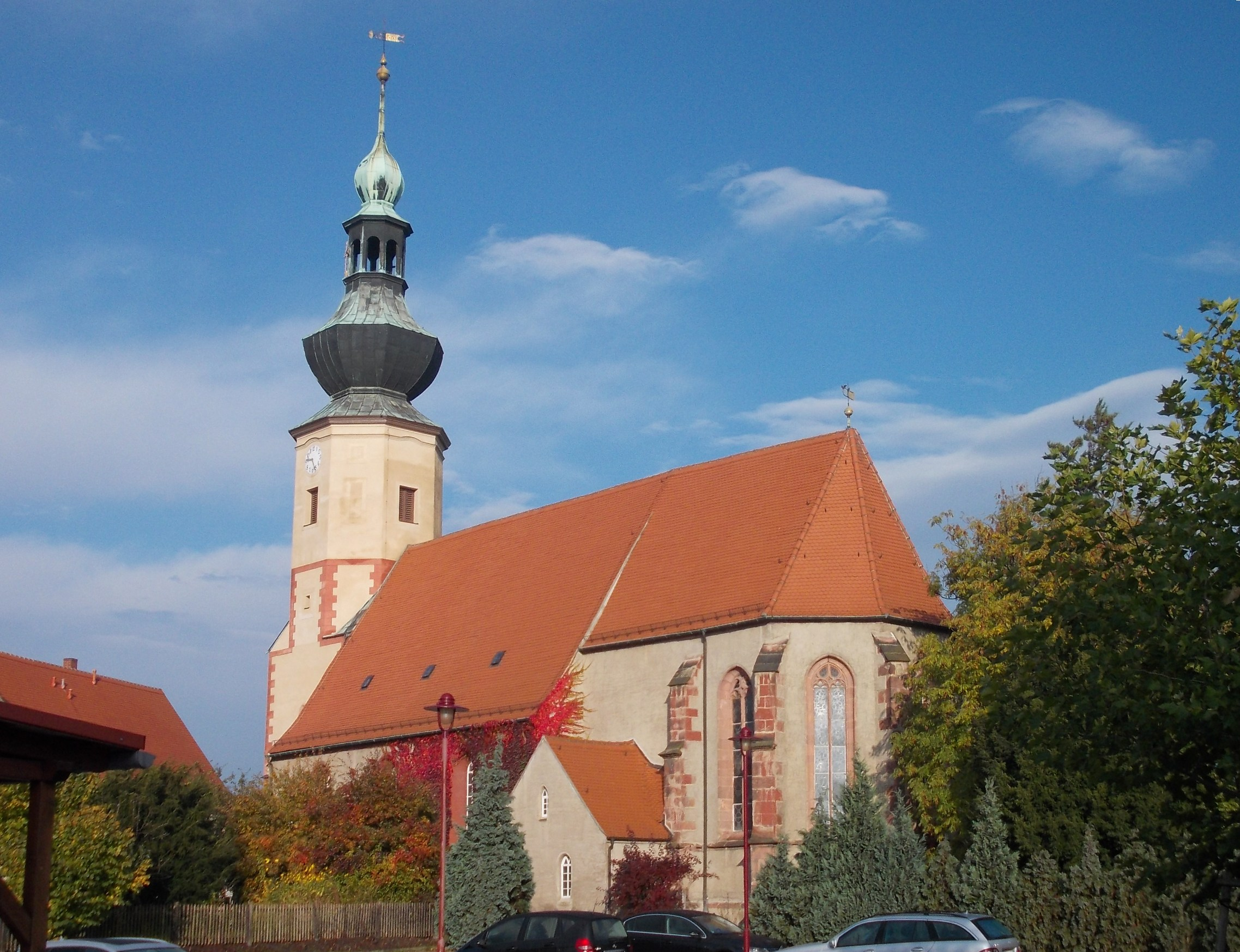 The church of the town of Trebsen (Leipzig district, Saxony)